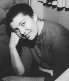 Ceramicist Khaya Toma